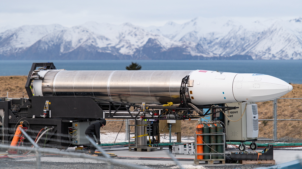 Launch campaign of the first Rocket 3.0 of Astra Space.